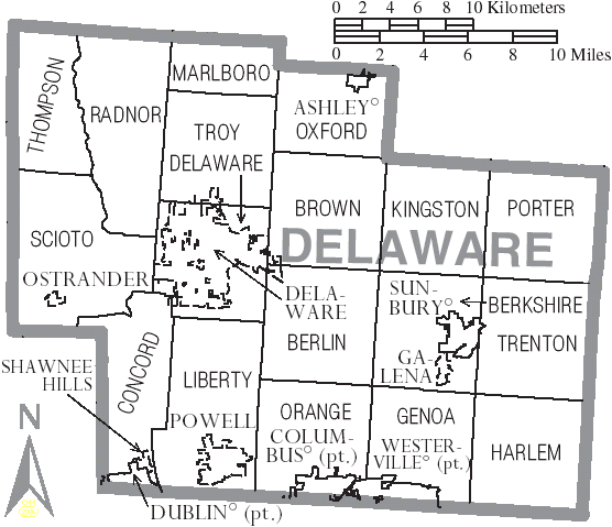 Map of Delaware County, Ohio, United States with township and municipal boundaries